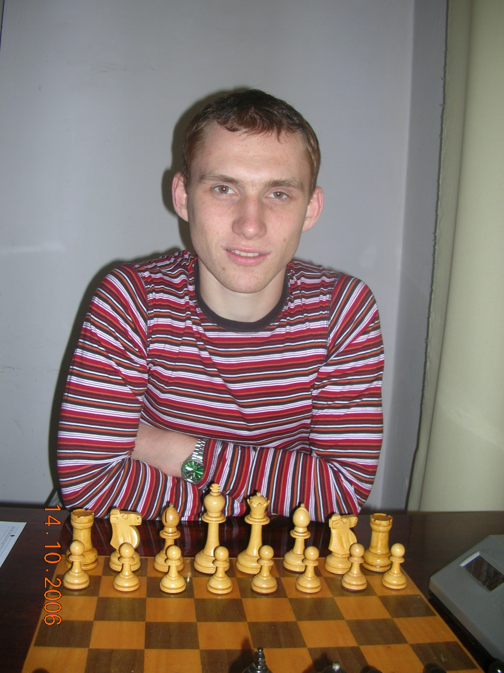 Valery Aveskulov, chess grandmaster